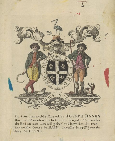 This is an image of a 21.5 x 17.2 cm hand-coloured engraving print of the arms of Sir Joseph Banks. The arms of the Bankes family of Kingston Lacy are: Sable, a cross engrailed ermine between four fleur-de-lys or.[1] This is a differenced version of the arms of the 14th century family of Bank of Bank Newton, Craven, in the West Riding of Yorkshire, namely: Sable, a cross or between four fleurs-de-lys argent.[2]